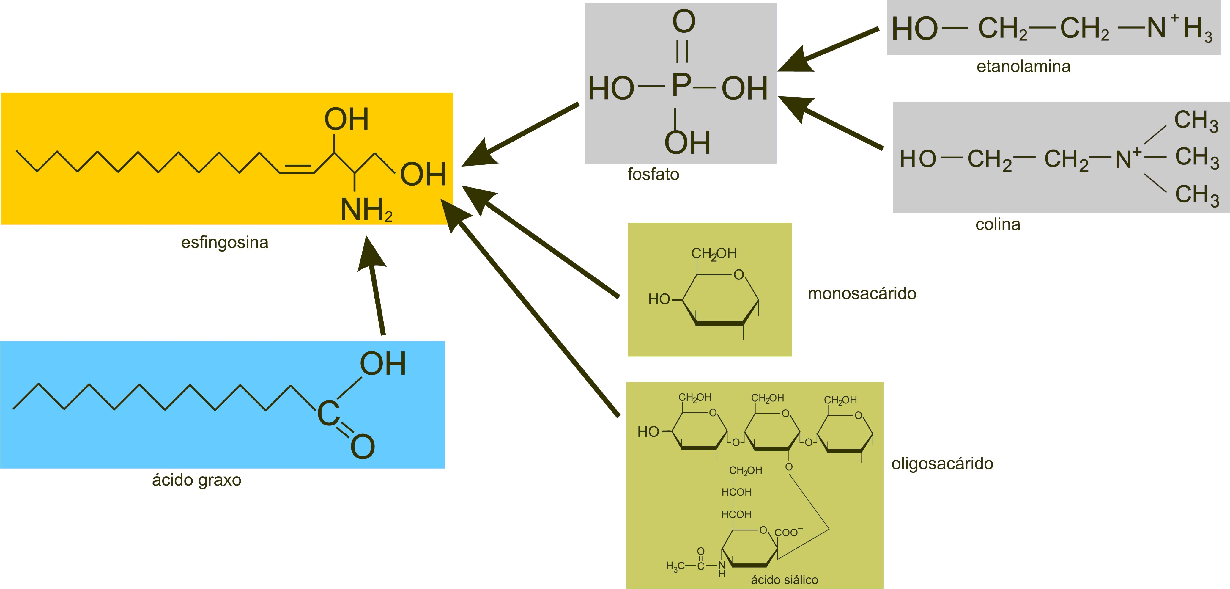 different parts of a sphingolipid jpg